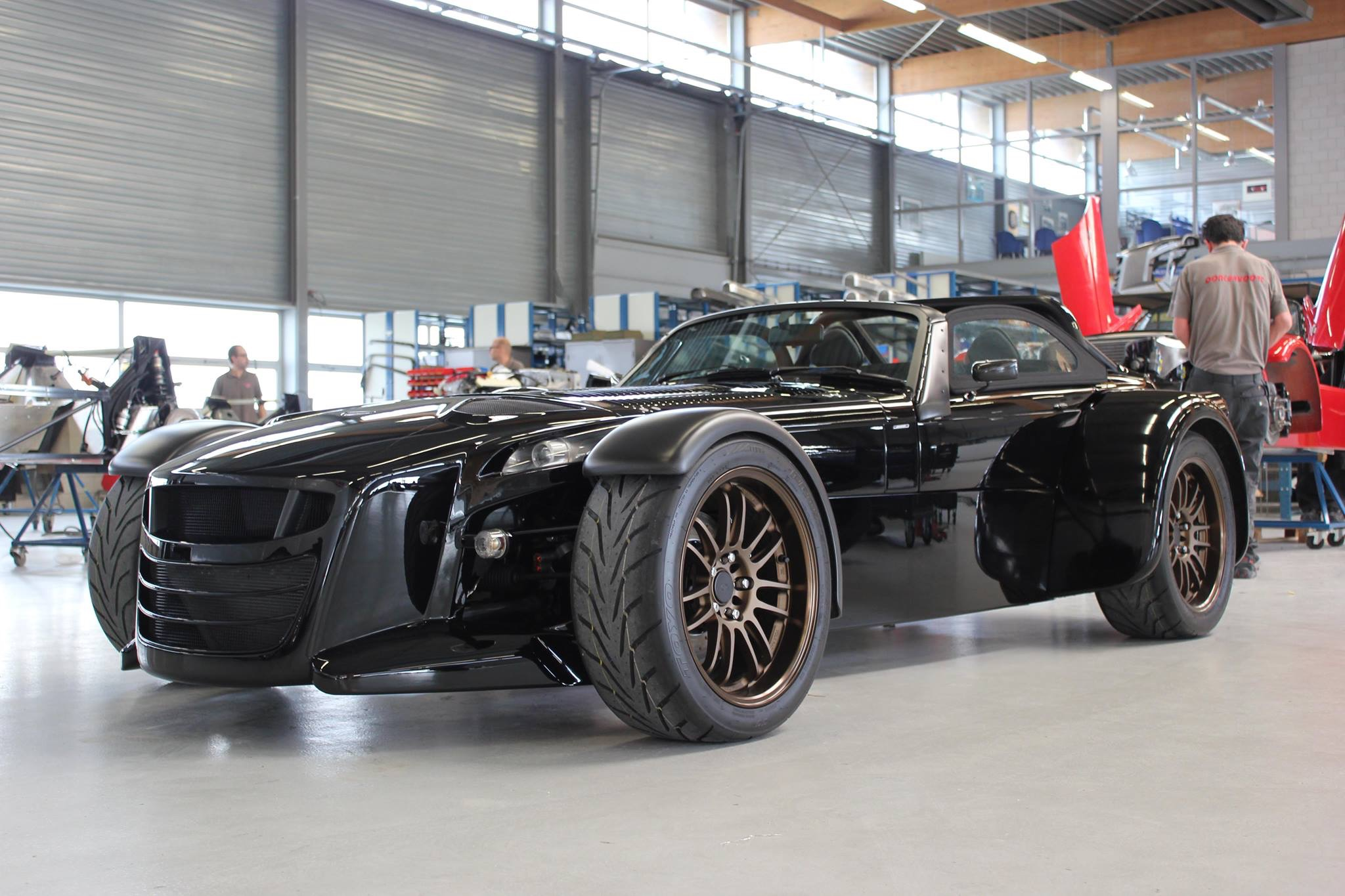 Donkervoort D8 GTO